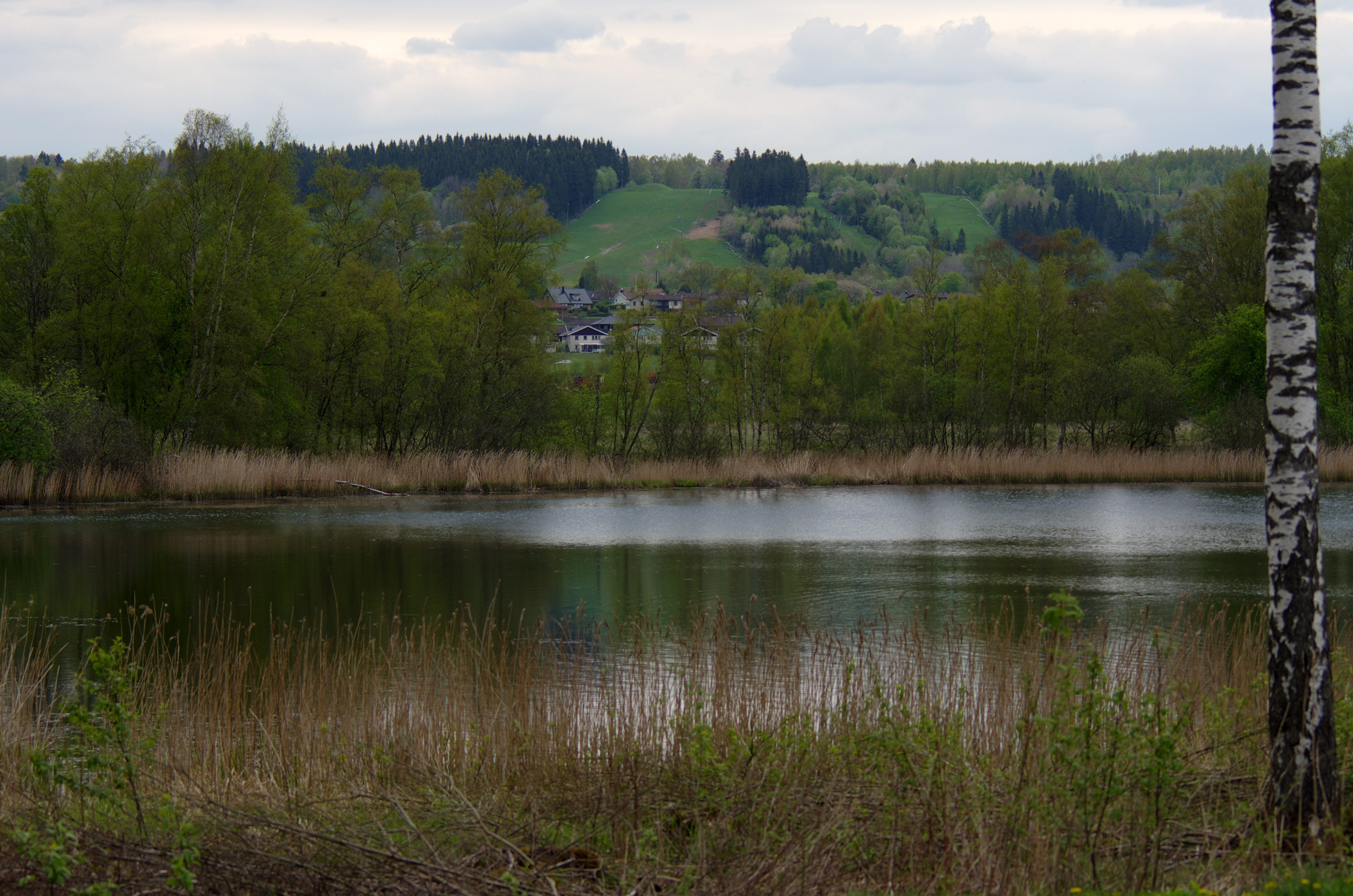 Hulesjön: Lake in Västergötland Sweden